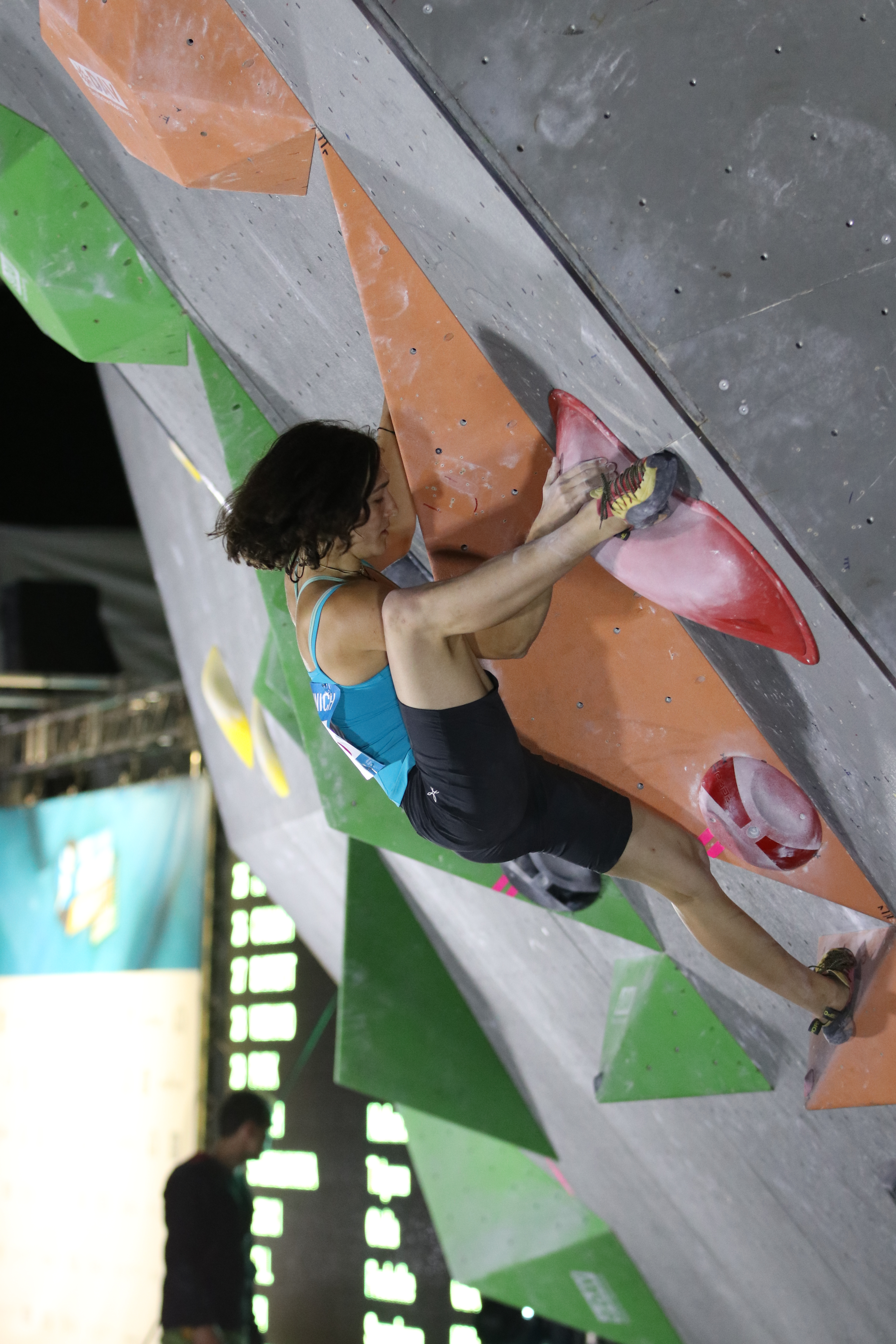 Veronika Simkova CZE at the Boulder Worldcup 2017 in Munich, Germany